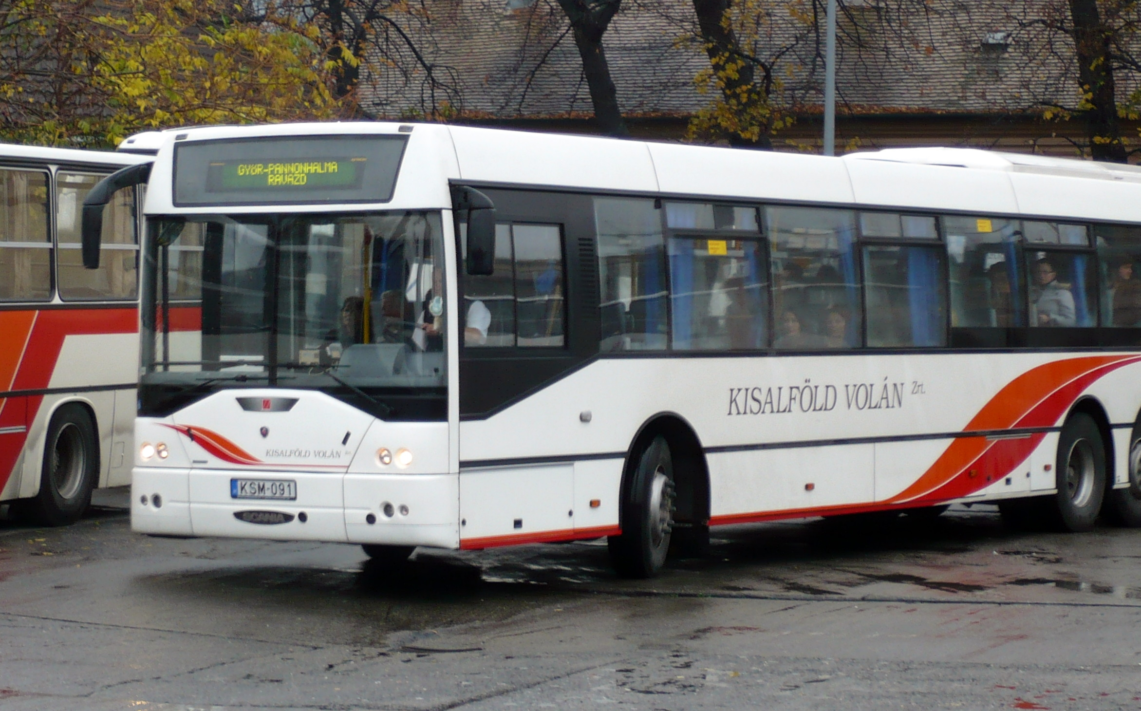 Ikarus E94F bus in Győr, Bus station.